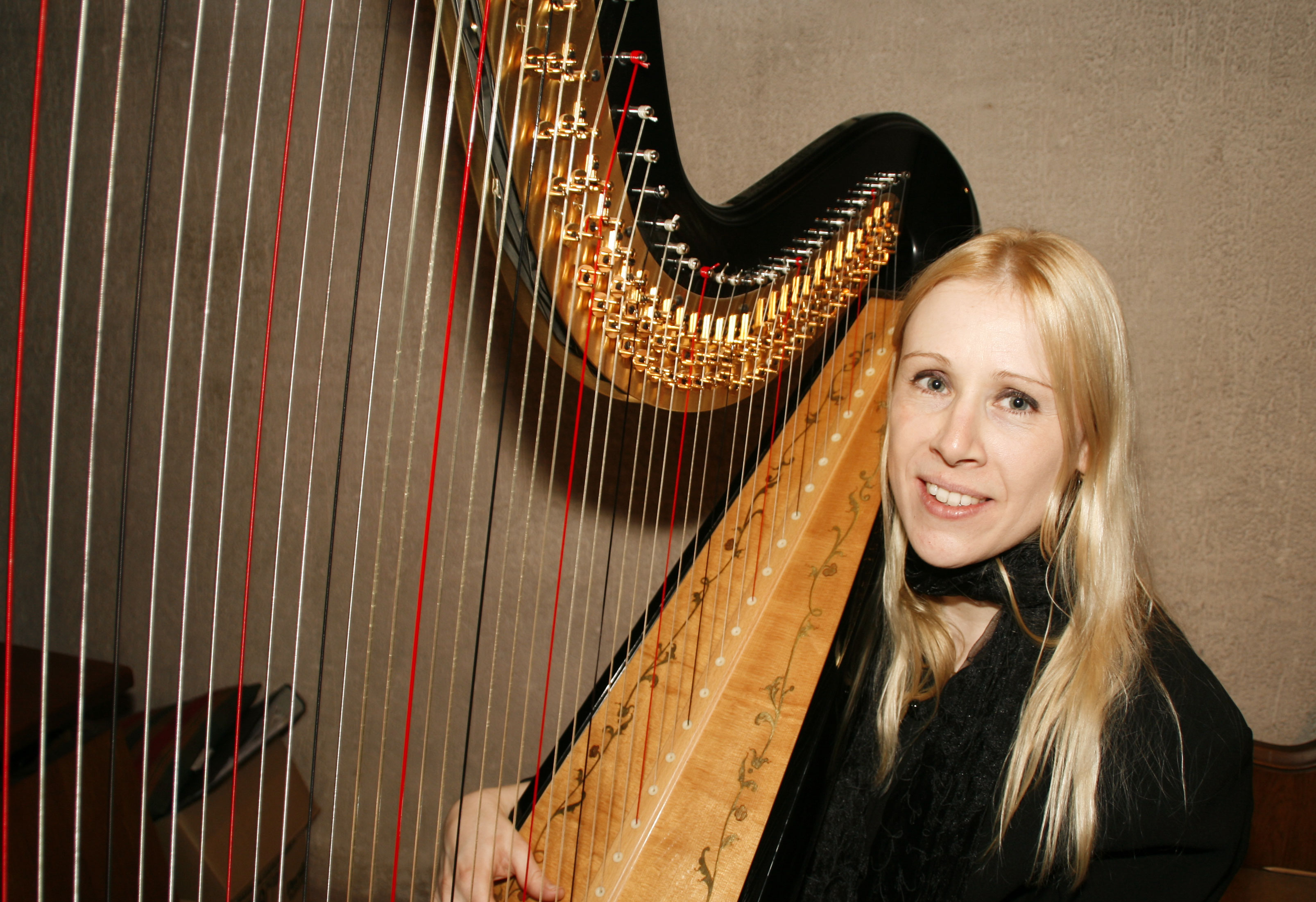 The harpist Geneviève Conter with her harp.